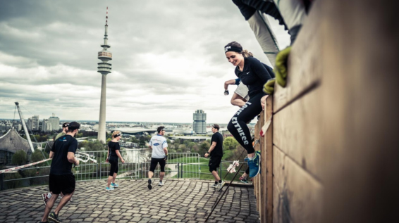 Spartan Race Sprint Munich 2016